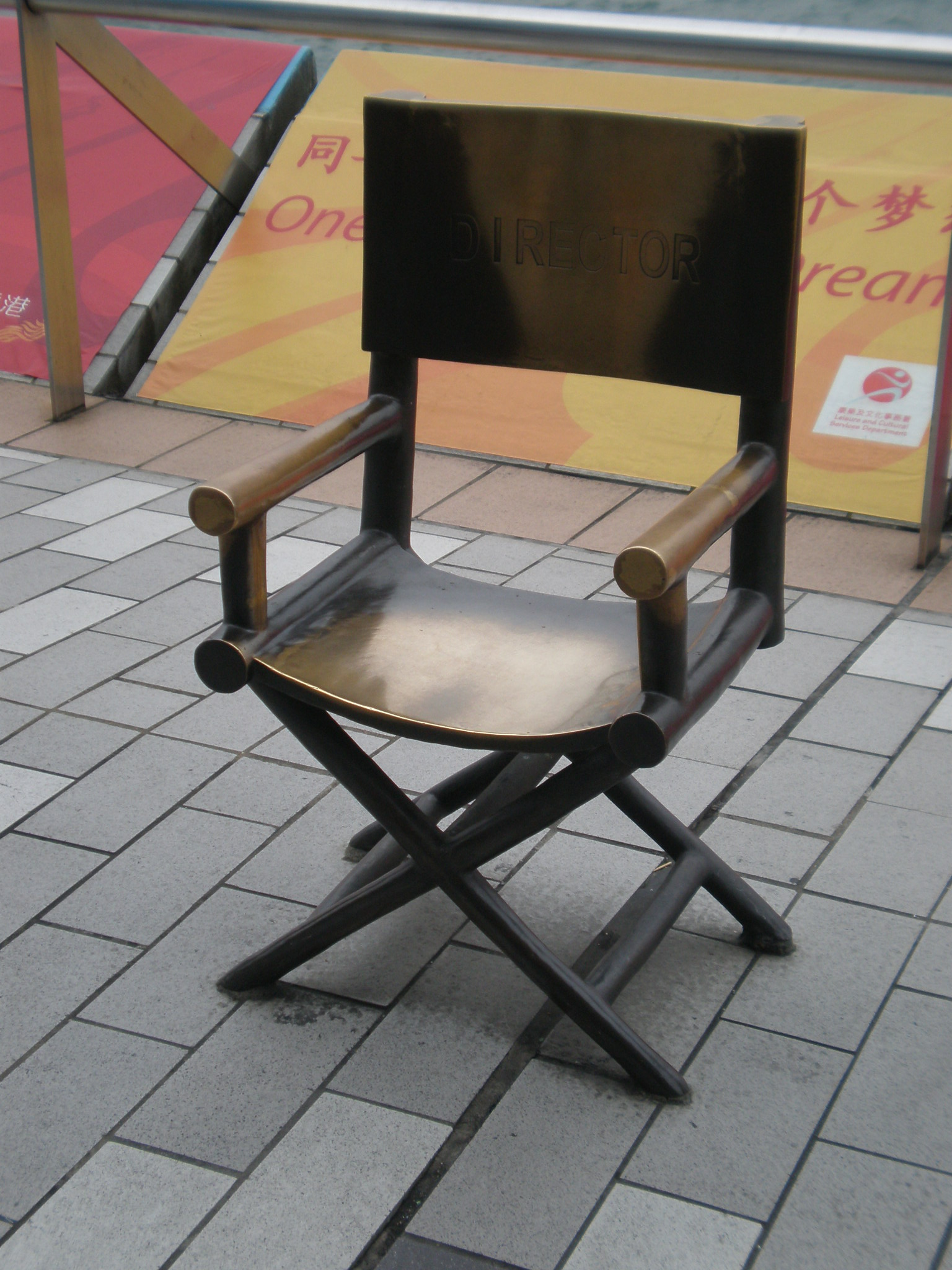 Statue of a director's chair on the Avenue of Stars in Hong Kong.